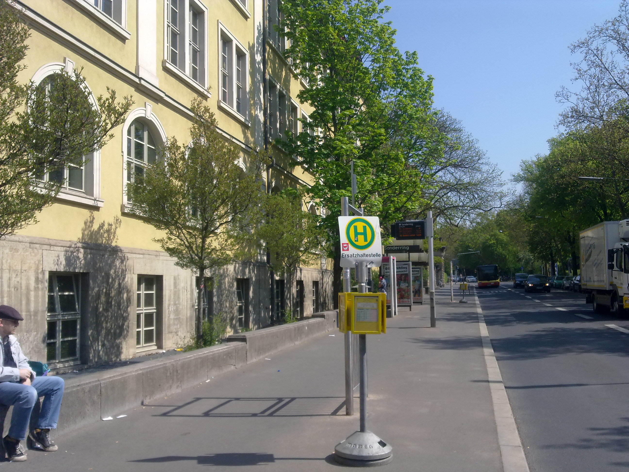 Bus stop at Röntgen-High-School in Würzburg / Germany